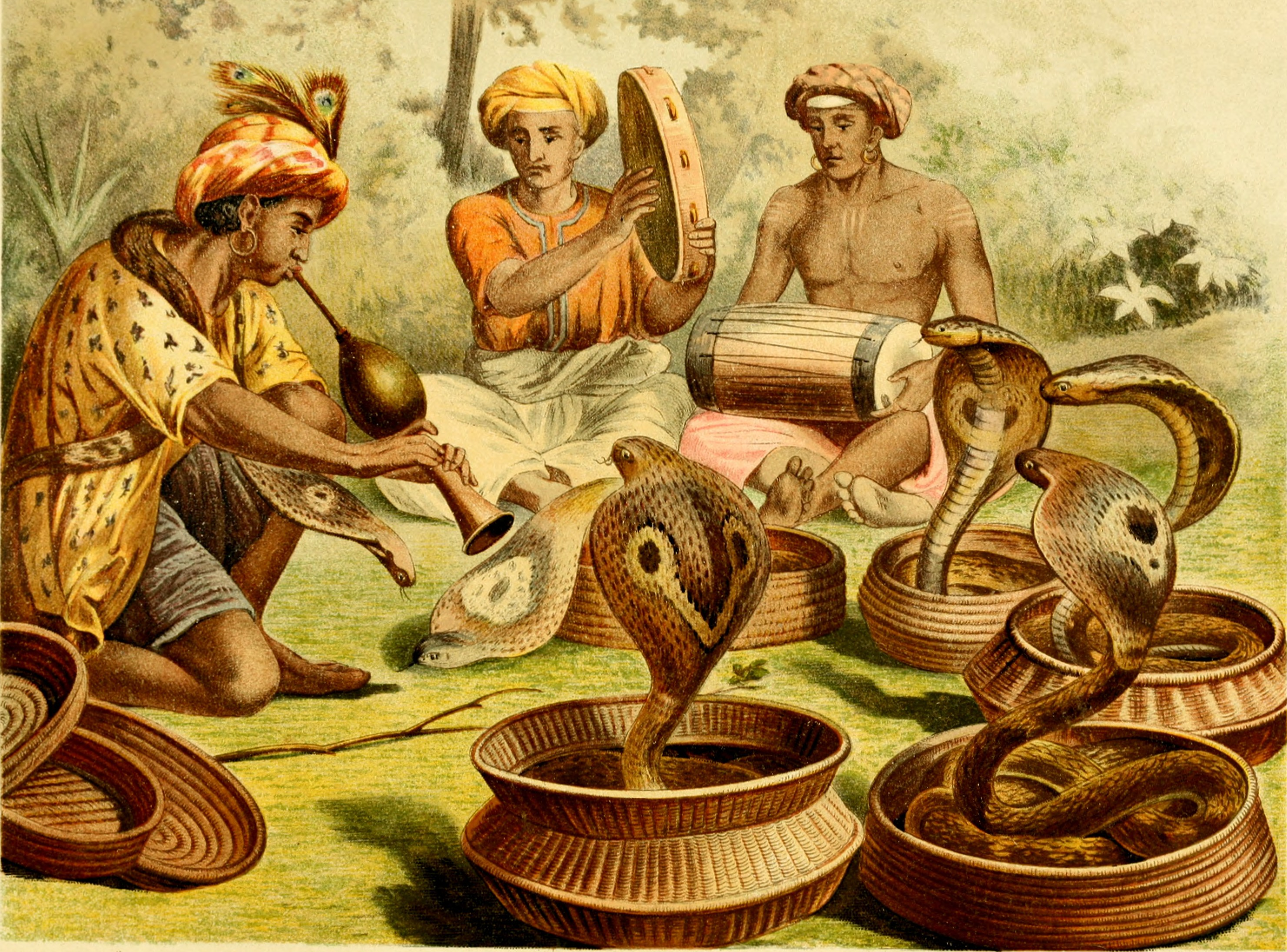 Title: Brehms Tierleben : allgemeine Kunde des Tierreichs Year: 1911-1921 (1910s) Authors: Brehm, Alfred Edmund, 1829-1884; havior Subjects: [1]; [2] Publisher: [3] Text Appearing Before Image: -. ^ Text Appearing After Image: '